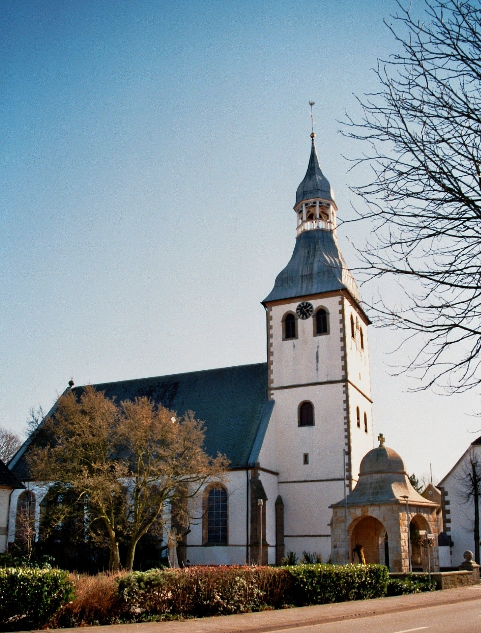 Roman Catholic St George Church and war memorial in Hopsten, Kreis Steinfurt, North Rhine-Westphalia, Germany.